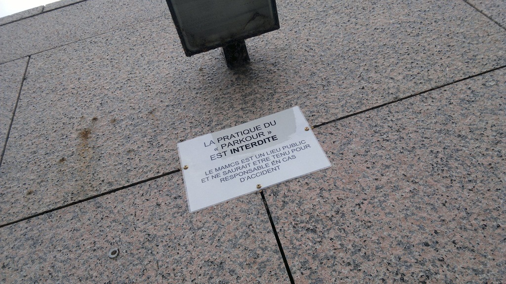 Parkour ban in Strasbourg. "The practice of parkour is prohibited. The (Strasbourg Museum of Modern and Contemporary Art) is a public place and cannot be held responsible for any accident.